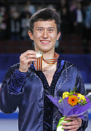 Patrick Chan (CAN) at the 2009 Four Continents Championships.